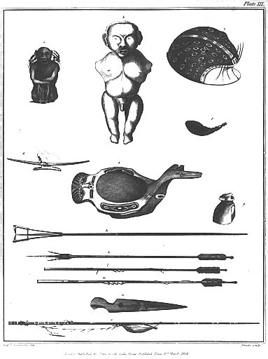 Pacific Gulf Yupik Eskimo artifacts from Kodiak Island, Alaska, in engraving made ca. 1805. Items include carved figures, seal decoy mask, dish, nose piece, harpoon, and arrows.